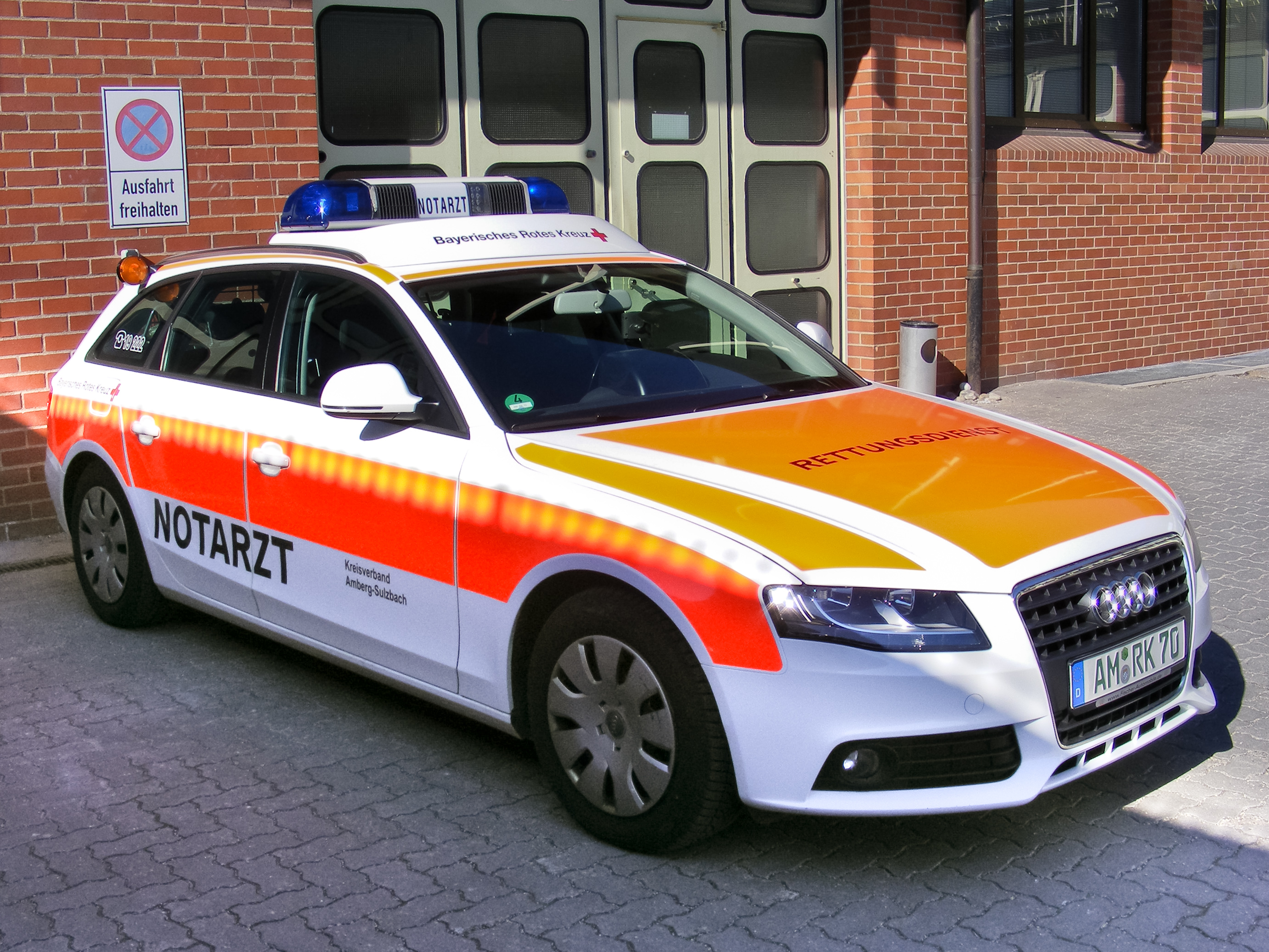 Medical Rapid response vehicle for Emergency physicians (Audi A4 Avant B8, AM-RK70) of the Bavarian Red Cross, Amberg-Sulzbach Chapter.